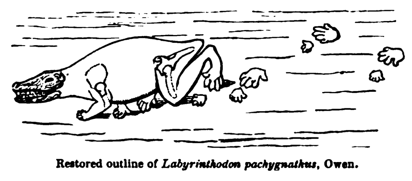 Historical life restoration of a “Labyrinthodont” (“Labyrinthodon pachygnathus”) making a Chirotherium trackway.